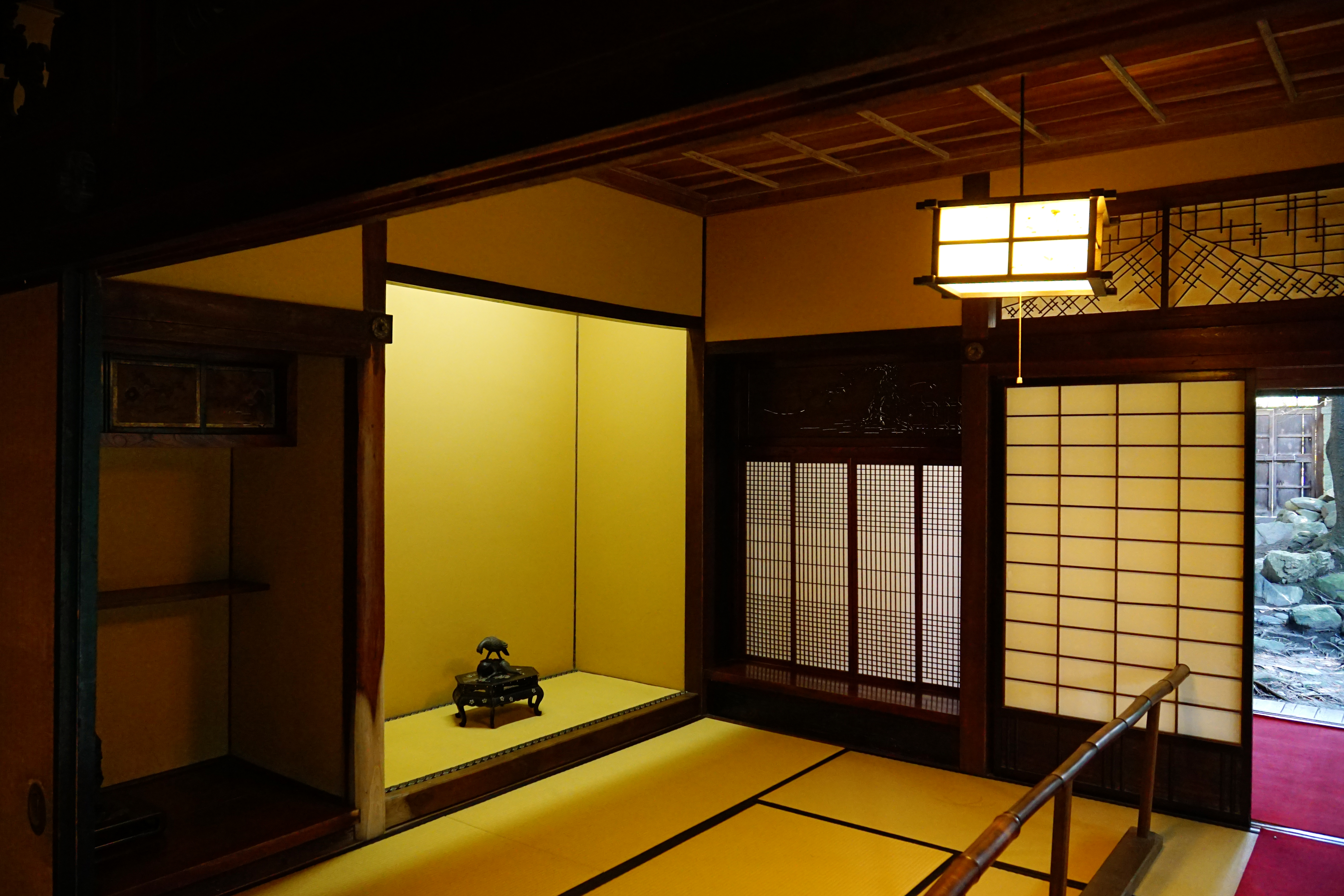 Todoroki House in Azumino, Nagano prefecture, Japan